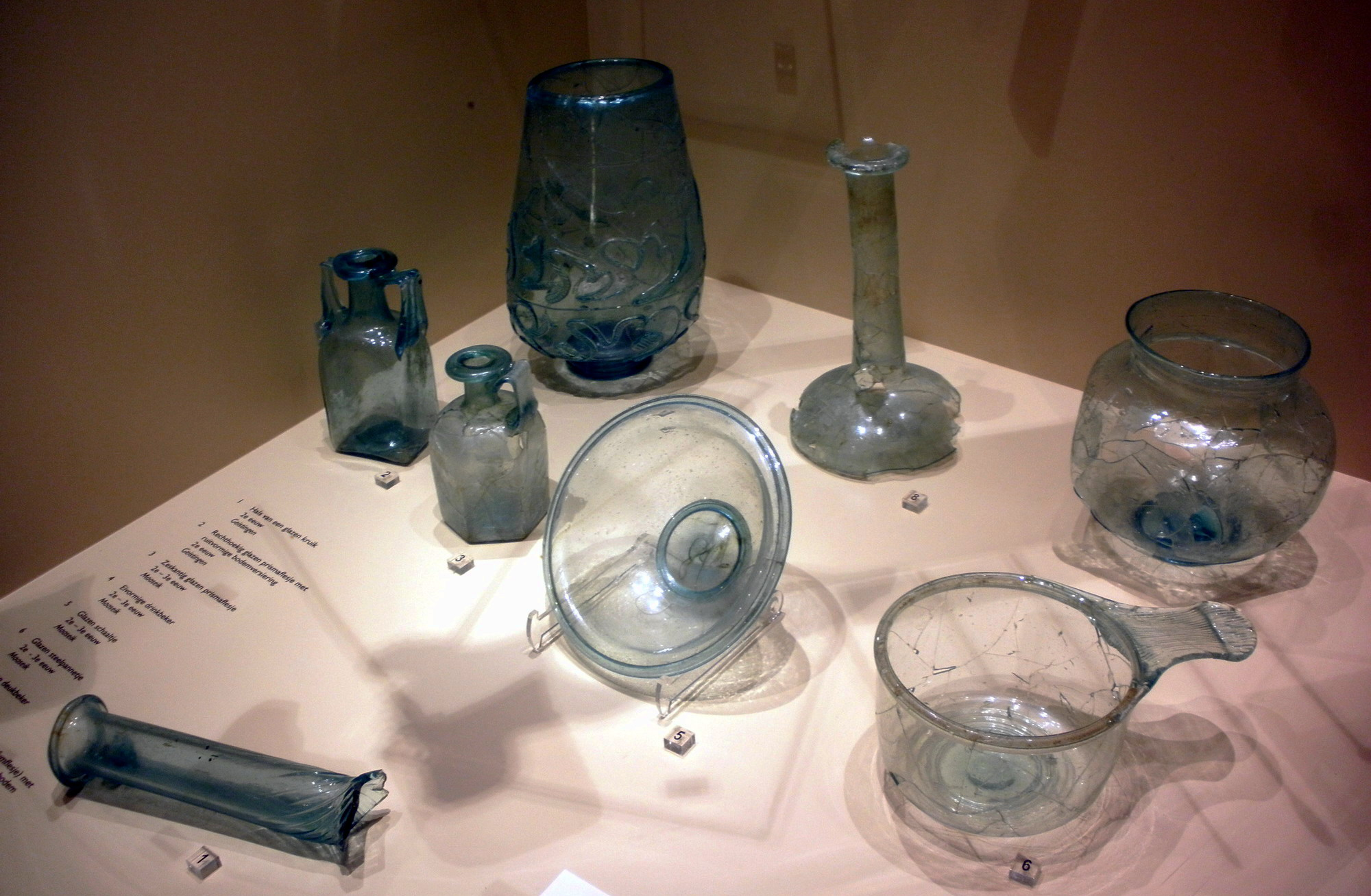 Maaseik, Belgium. 2nd and 3rd-century Roman glass found in and around Maaseik in the Regionaal Archeologisch Museum (RAM), the local museum of history and archeology.